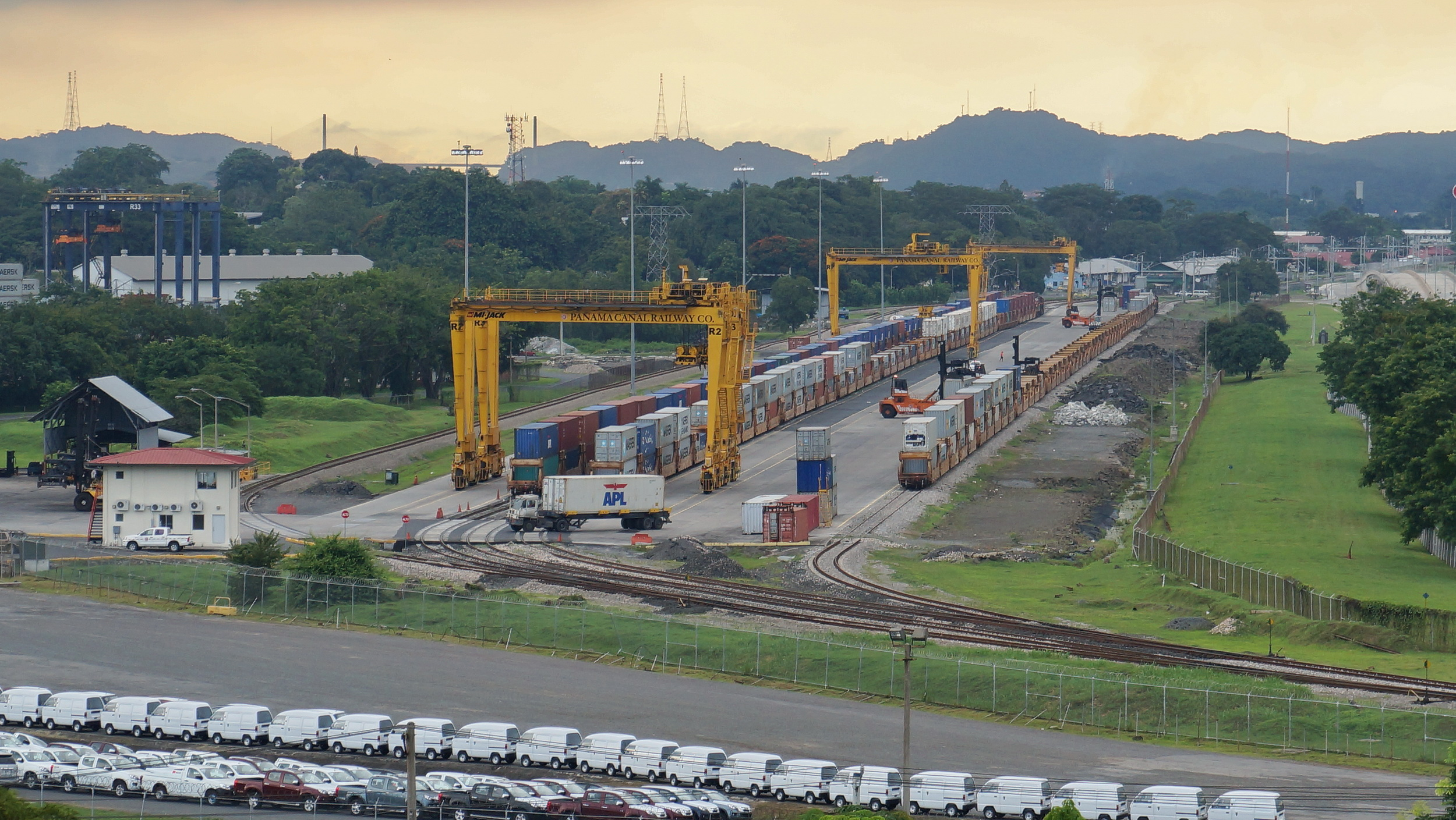 Pacific intermodal terminal of the Panama Canal Railway in 2013 with three center tracks. Compare with File:Ferrocarril a la vista.JPG from 2012 with two tracks in center